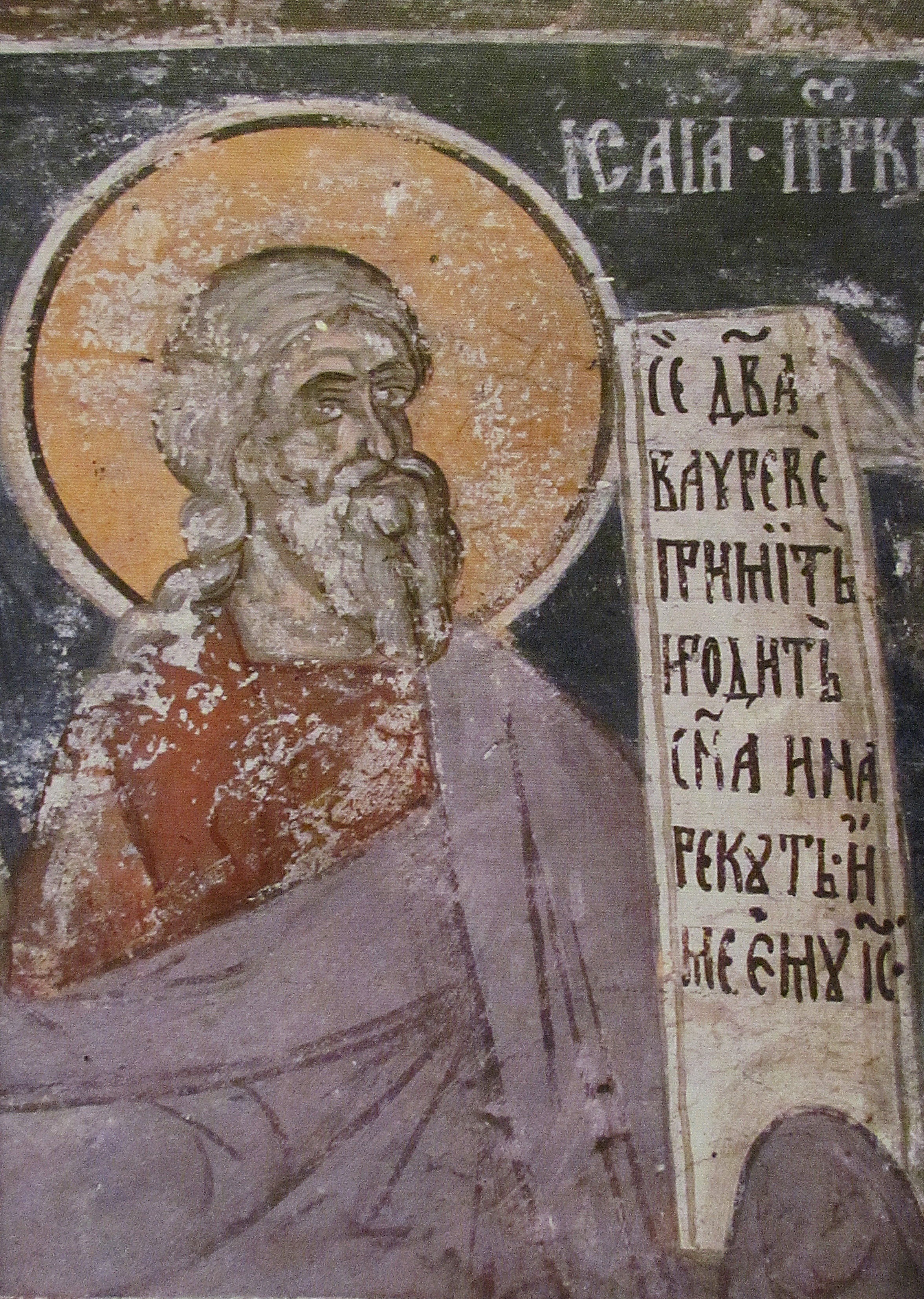 Isaiah the Prophet, fresco in Hermitage near Studenica, c. 1618